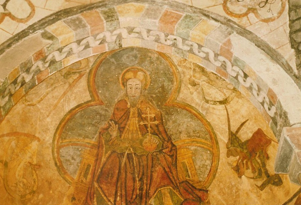 15th century frescoes